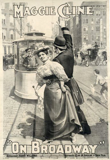 Lithograph poster for "On Broadway," 1896.